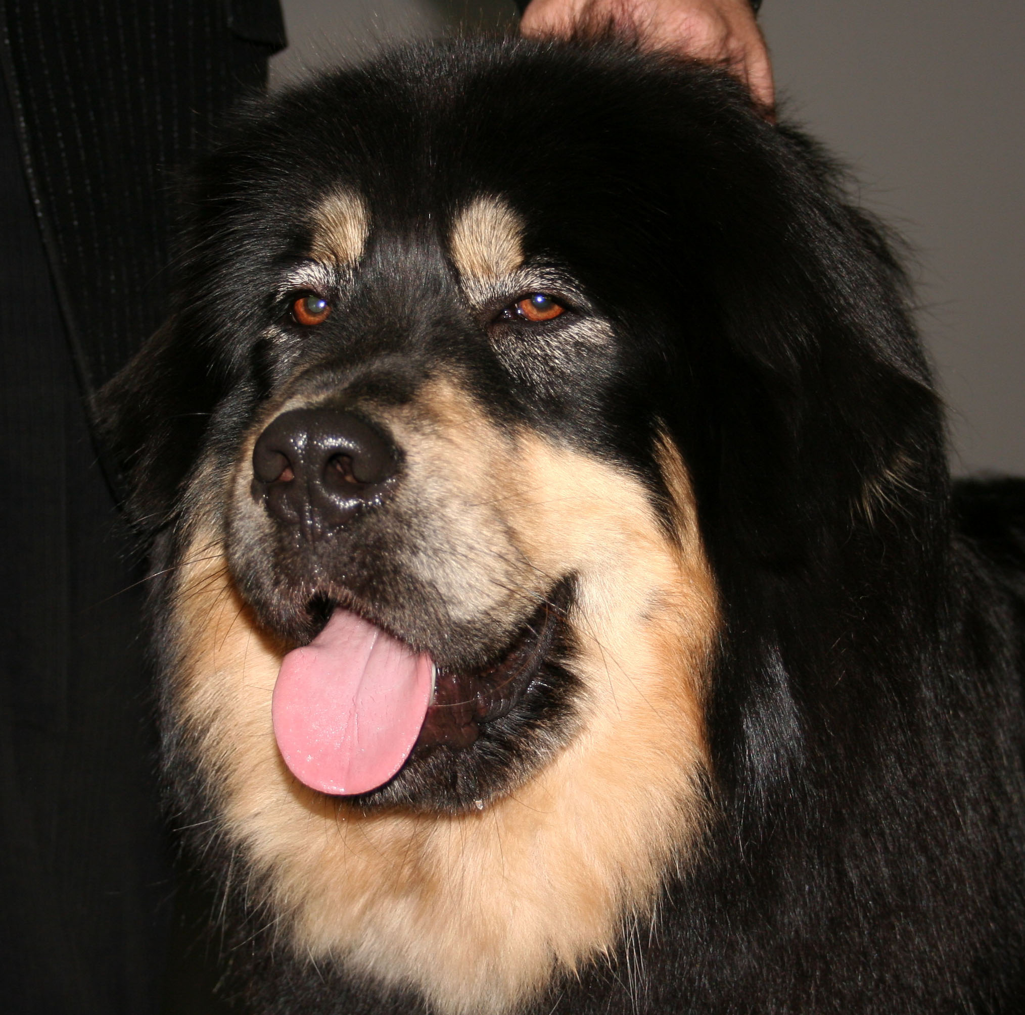 Tibetan Mastiff dog during the world dogs show in Poznań, Poland. His name is BISS CH. LAFAHHS LOKAPALA DRAKYI.